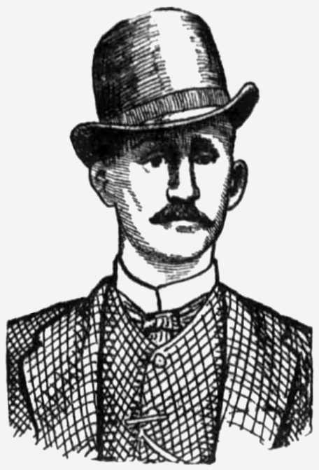 An illustration of professional baseball player Frank Nicholas